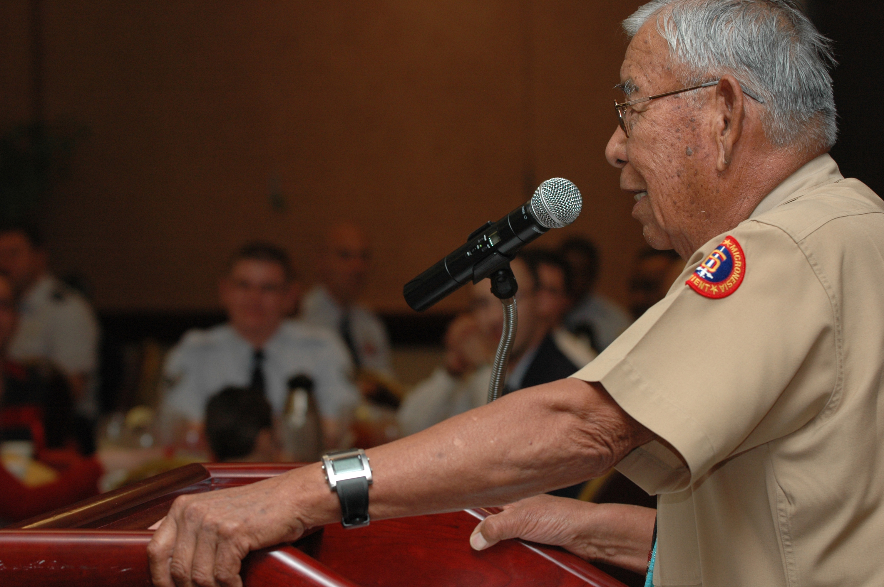 Marine Cpl. (Ret.) Joe Morris, who served as Navajo code talker during World War II, addresses members of Team Travis at the Native American Heritage luncheon, November 3, 2008, at Travis Air Force Base in California.